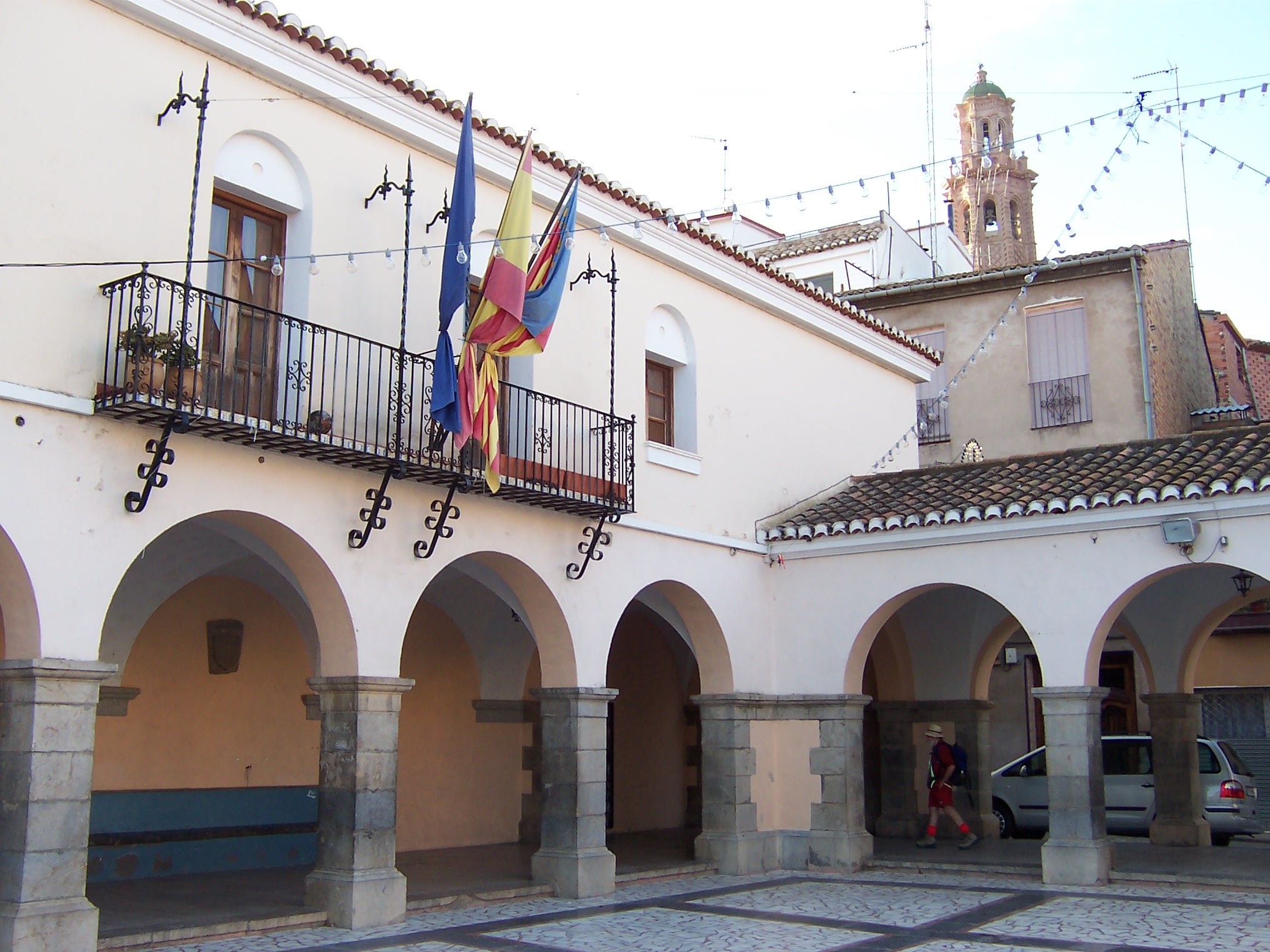 Jérica Town hall (council building) in the Land of Valencia. Author: José F. Català Senent